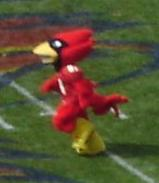 Cy the mascot during a game